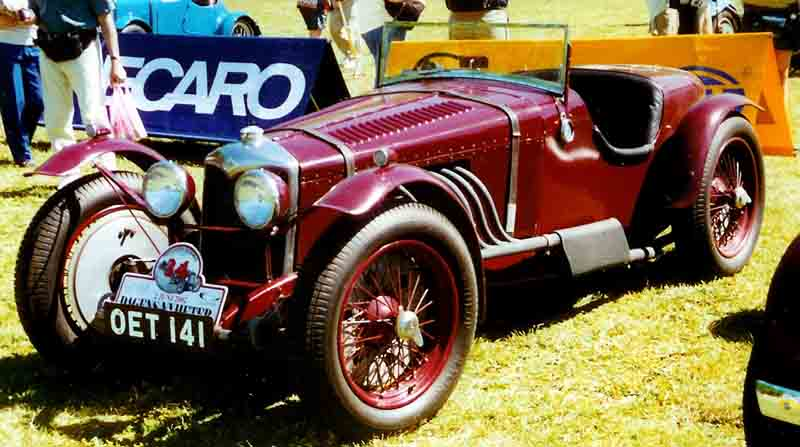 Riley MPH 2-Seater Sports 1934(DVLA) OET 141 — manufactured 1935, 1986 cc